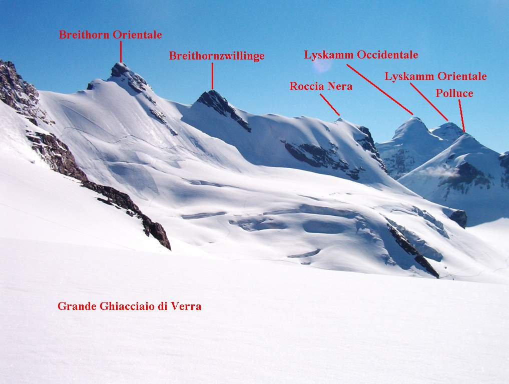 Eastern Breithorn (western Breithorn Twin), Gendarm (eastern Breithorn Twin), Roccia Nera, Western Liskamm, Eastern Liskamm, Pollux